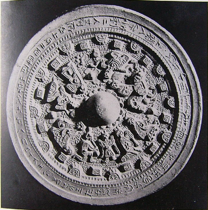 Bronze Mirror 1diameter 19.9cm, in Suda Hachiman Shrine, Wakayama, Japan, cyclic year date inscripted, ACE443 or ACE503